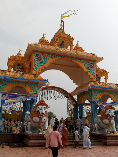 FAKE BABA SARATHI IS HERE. Dont go to this place, KENDRAPARA